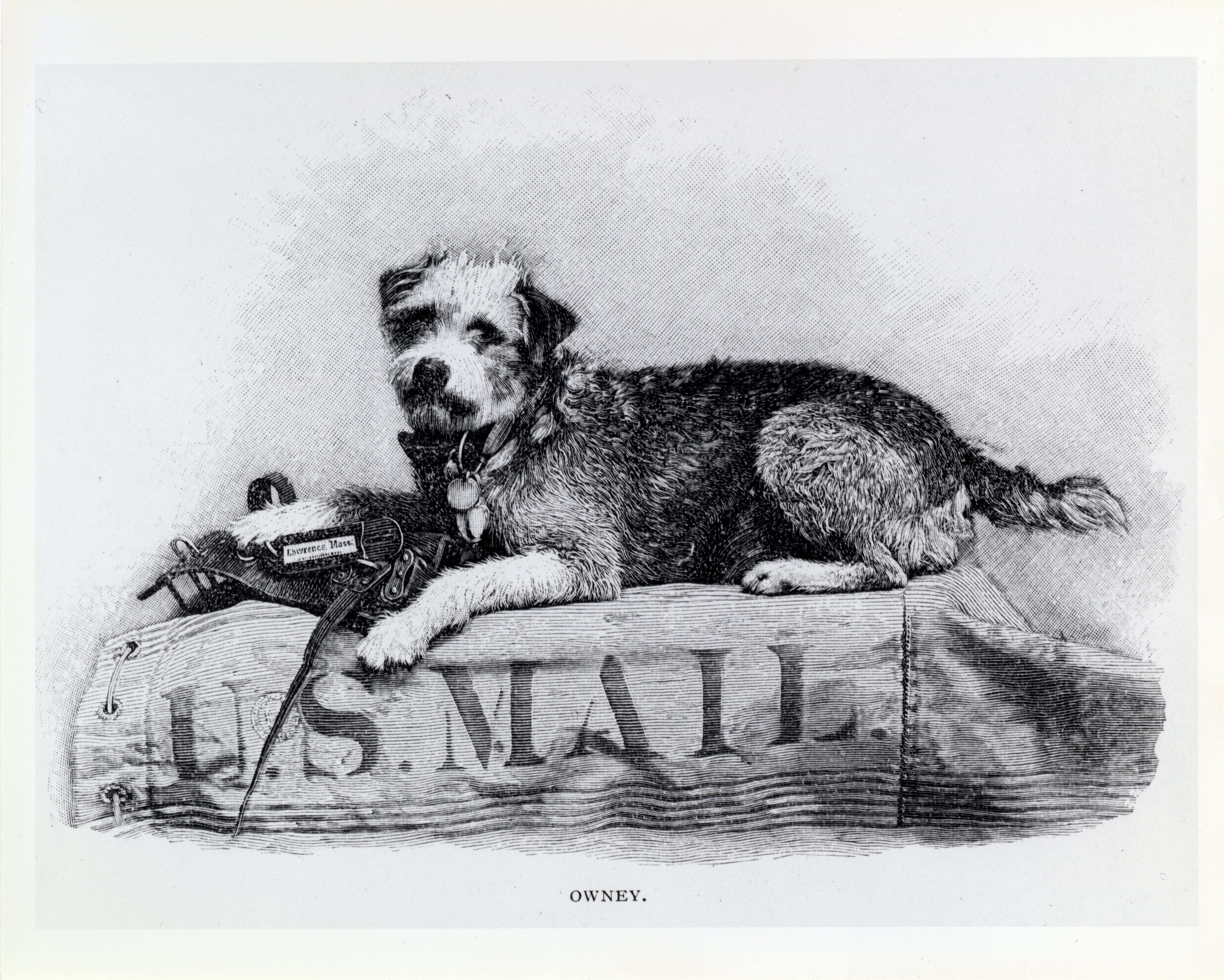 Description: This is an illustration of Owney, the dog who was the unofficial mascot of the Railway Mail Service in the 1890s. Owney is shown posed on a U.S. mail sack. Creator/Photographer: Unidentified photographer Medium: Black and white photographic print Culture: American Geography: USA Date: 1895 Collection: Owney Collection Persistent URL: Repository: National Postal Museum Accession number: A.2006-46